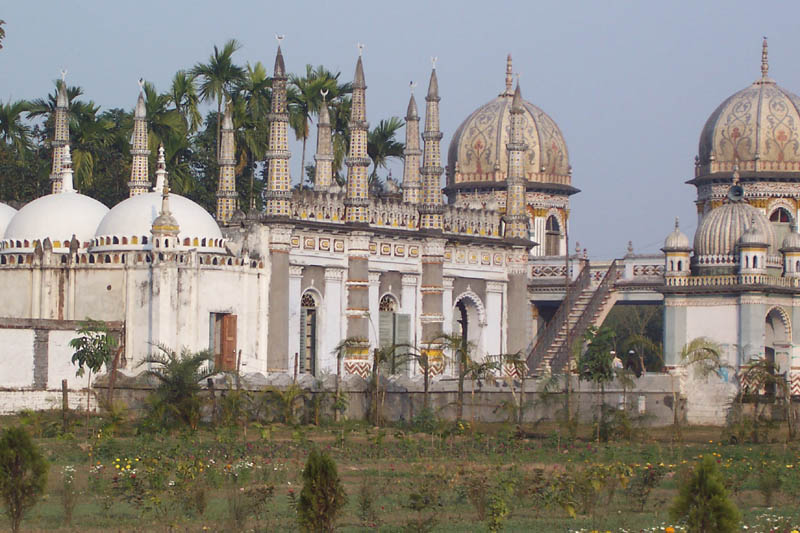 700 years old mosque at Nawab estate, Tangail, Dhonobari, Bangladesh